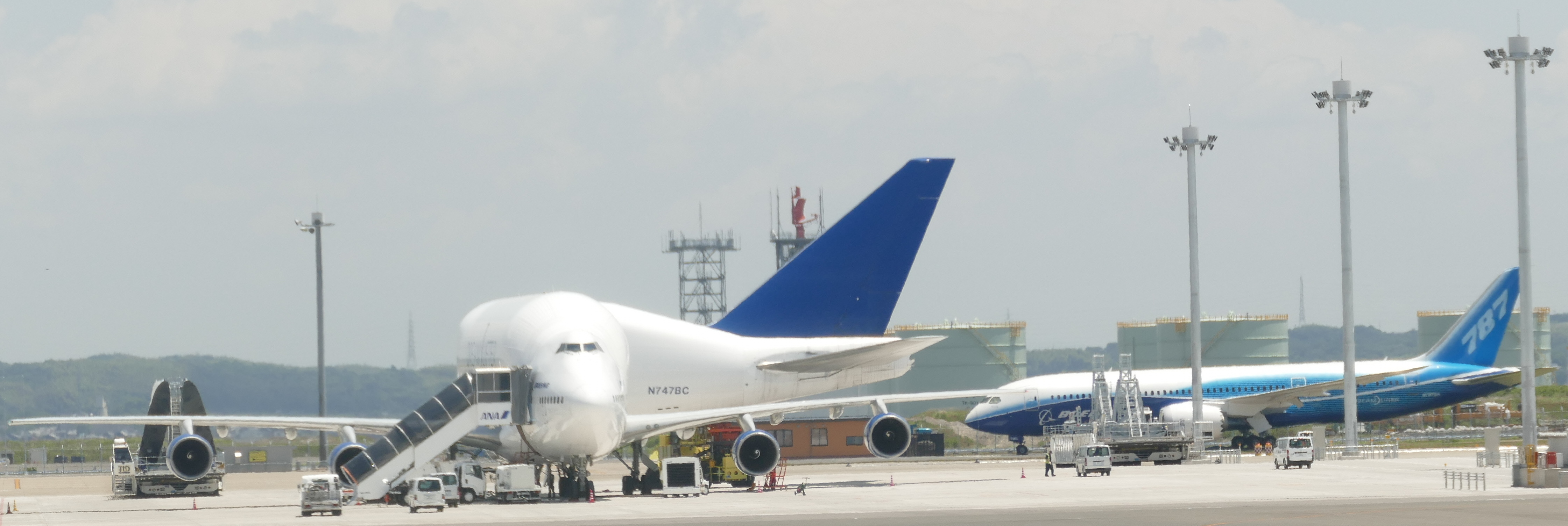 Left:main wing of B787,Center:Dreamlifters,Right:B787,Aichi prefecture,Japan